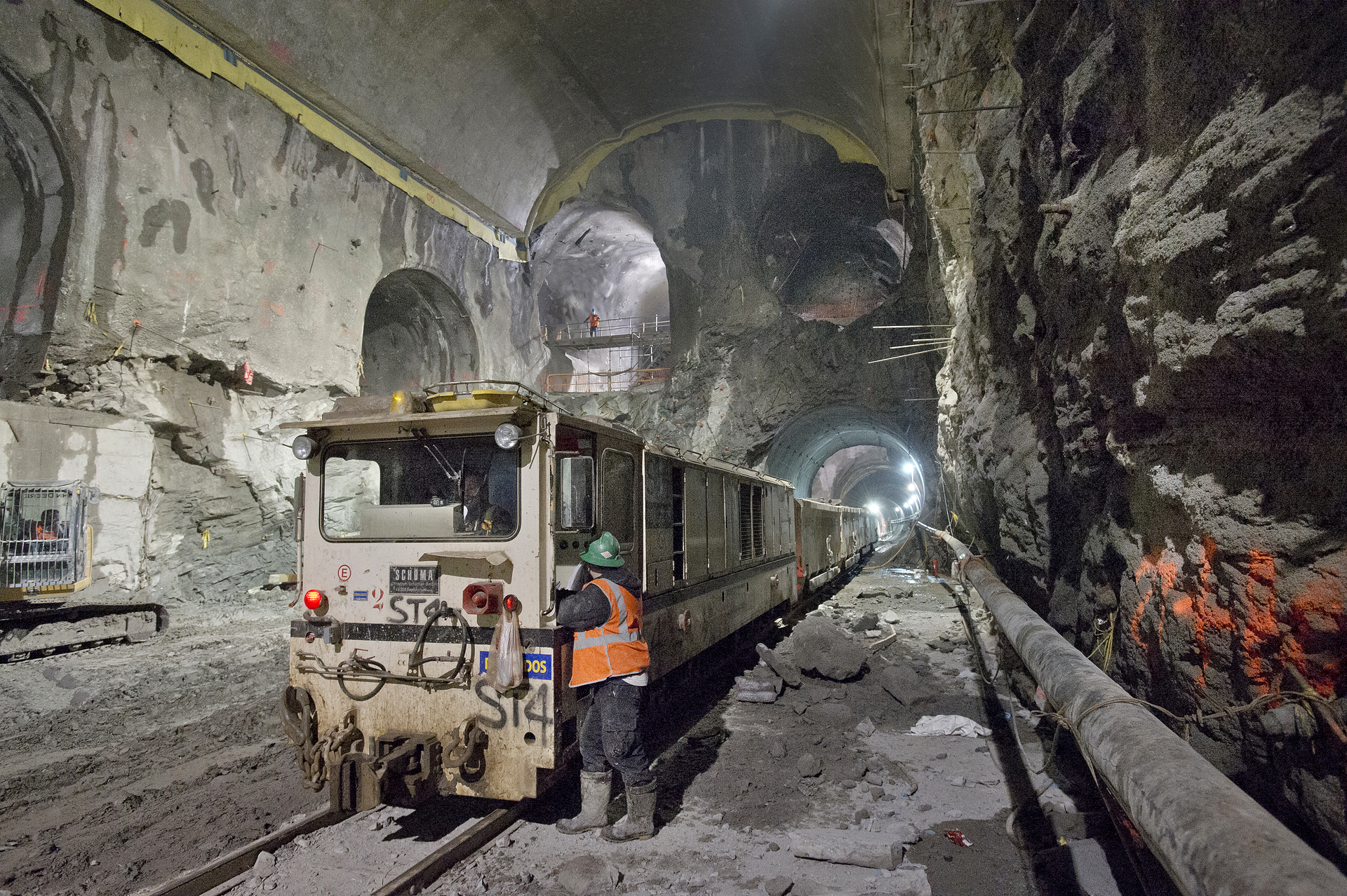 Progress continues on the East Side Access project as of February 12, 2013. This photo shows work on the caverns underneath Grand Central Terminal that will house a future concourse for arriving and departing Long Island Rail Road trains. Photo: Metropolitan Transportation Authority / Patrick Cashin.